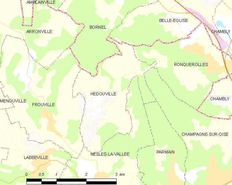 Map of French municipality Hédouville